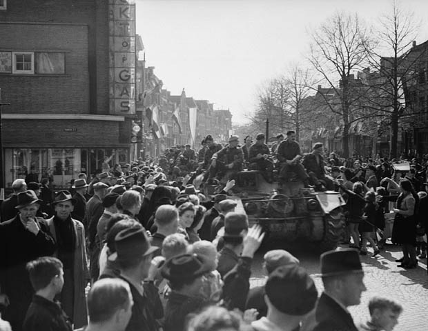 Crowd welcoming the Stormont, Dundas and Glengarry Highlanders of Canada to Leeuwarden